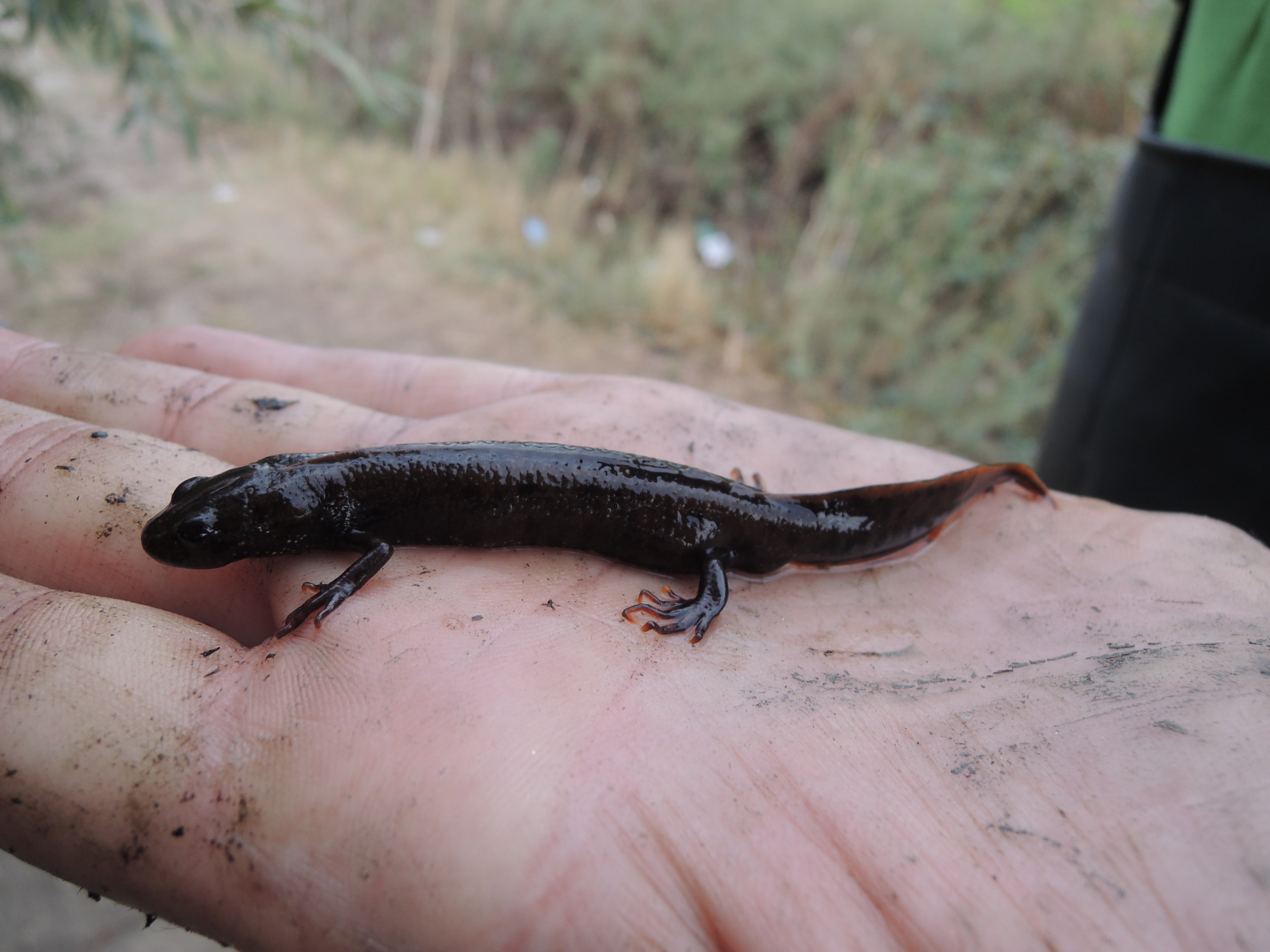 Triturus dobrogicus, Lake Kartal, Ukraine